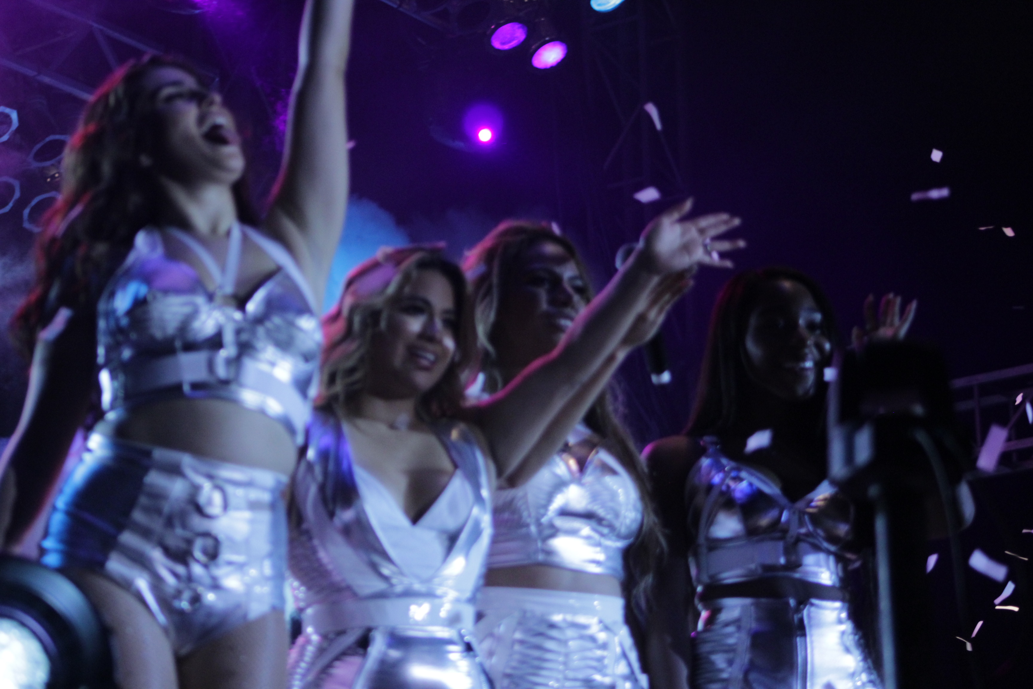 Fifth Harmony (Lauren Jauregui, Normani Kordei, Dinah Jane Hansen, Ally Brooke Hernandez) perform at the Los Angeles County Fair in Pomona, Ca. on Sep. 15, 2017. Taken by Dominique Redfearn